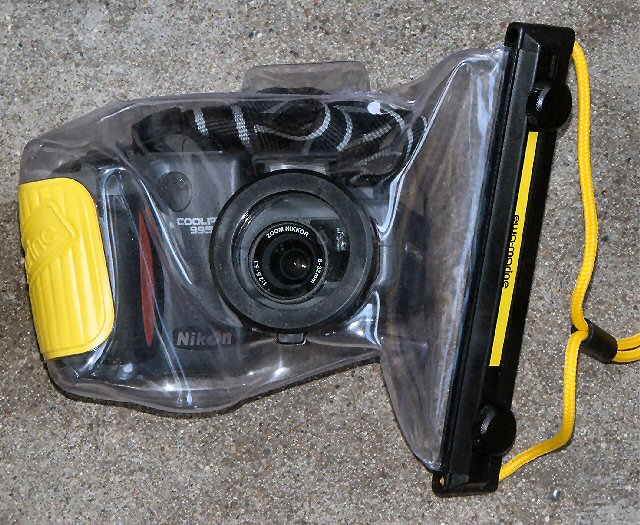 digital camera Nikon Coolpix E-995 with watertight housing Ewa-Marine D-NC2